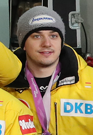 Christian Rasp in Pyeongchang, IBSF World Cup 2016/17 finale